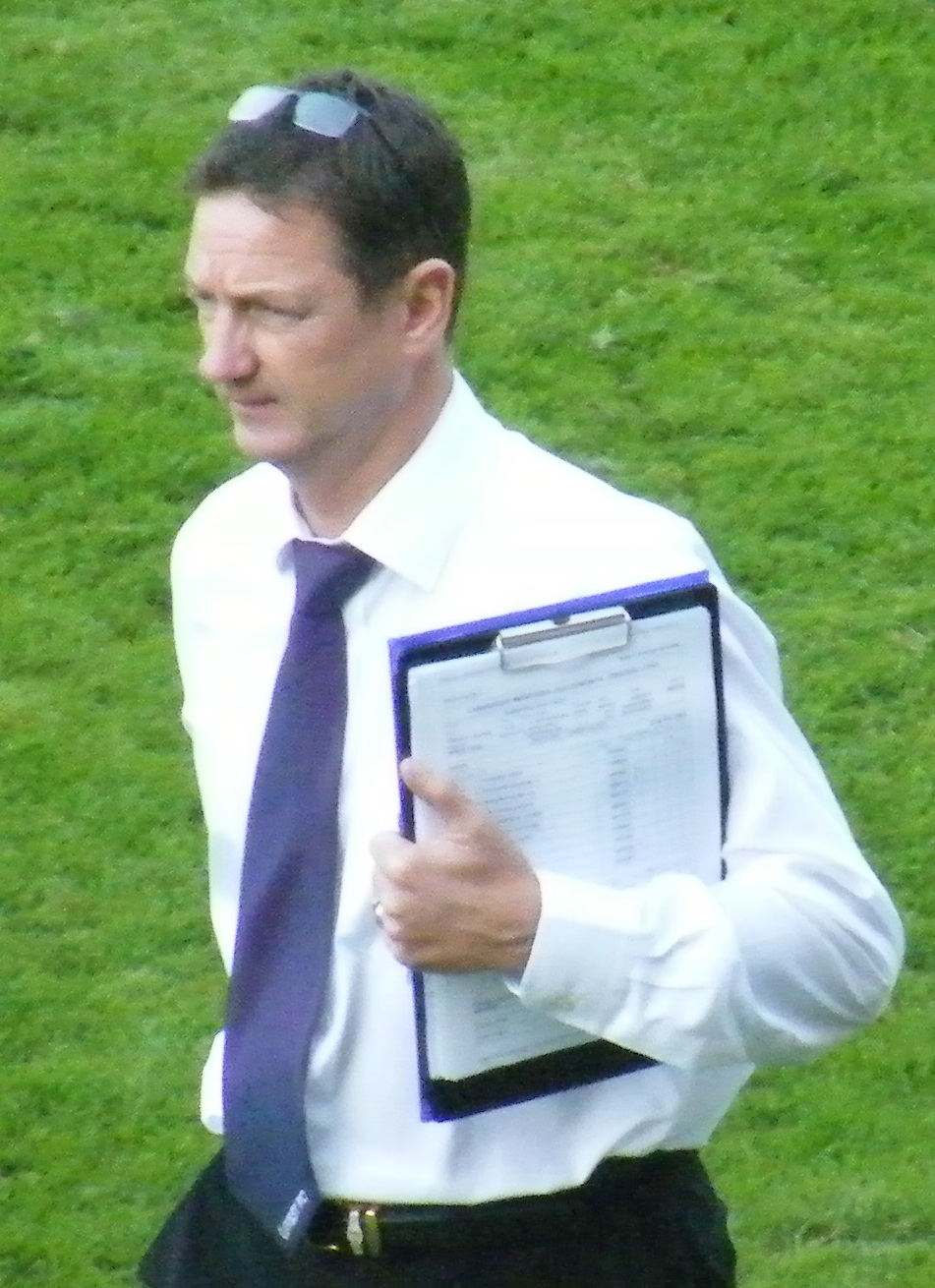 William McStay football manager